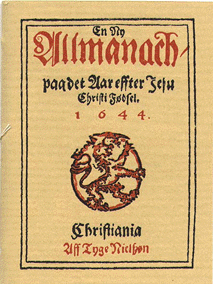 Image of the first book ever published in Norway, the almanac (nn/nb) Allmanach paa det aar efter Jesu Christi Fødsel 1644 (nn/nb), published by Tyge Nielssøn (nn/nb) in 1644 (nn/nb).